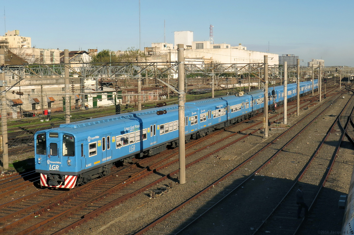 A Roca Line EMU approaching Constitucion railway station.